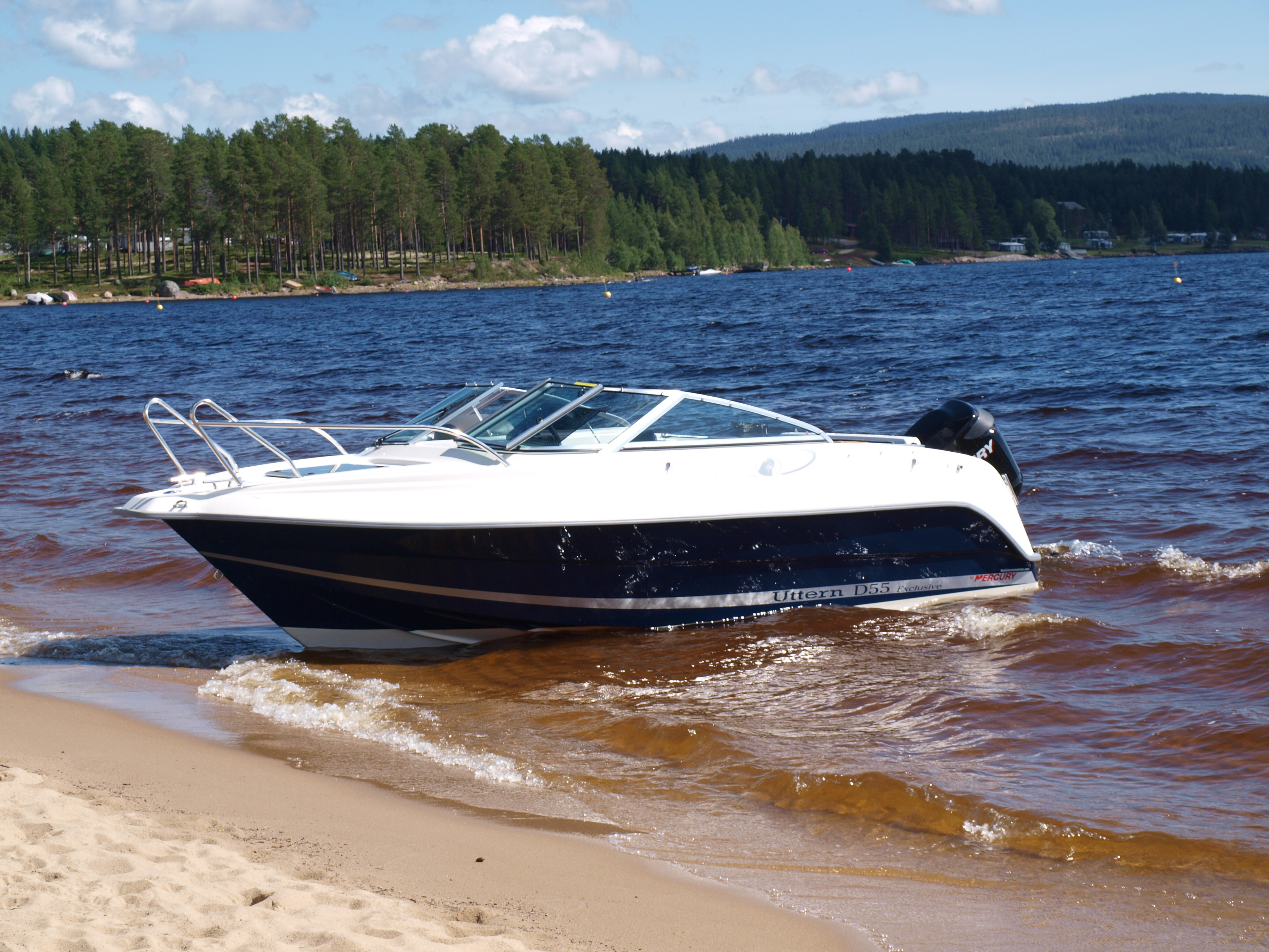 Uttern D55 Exclusive, a Swedish motor boat.